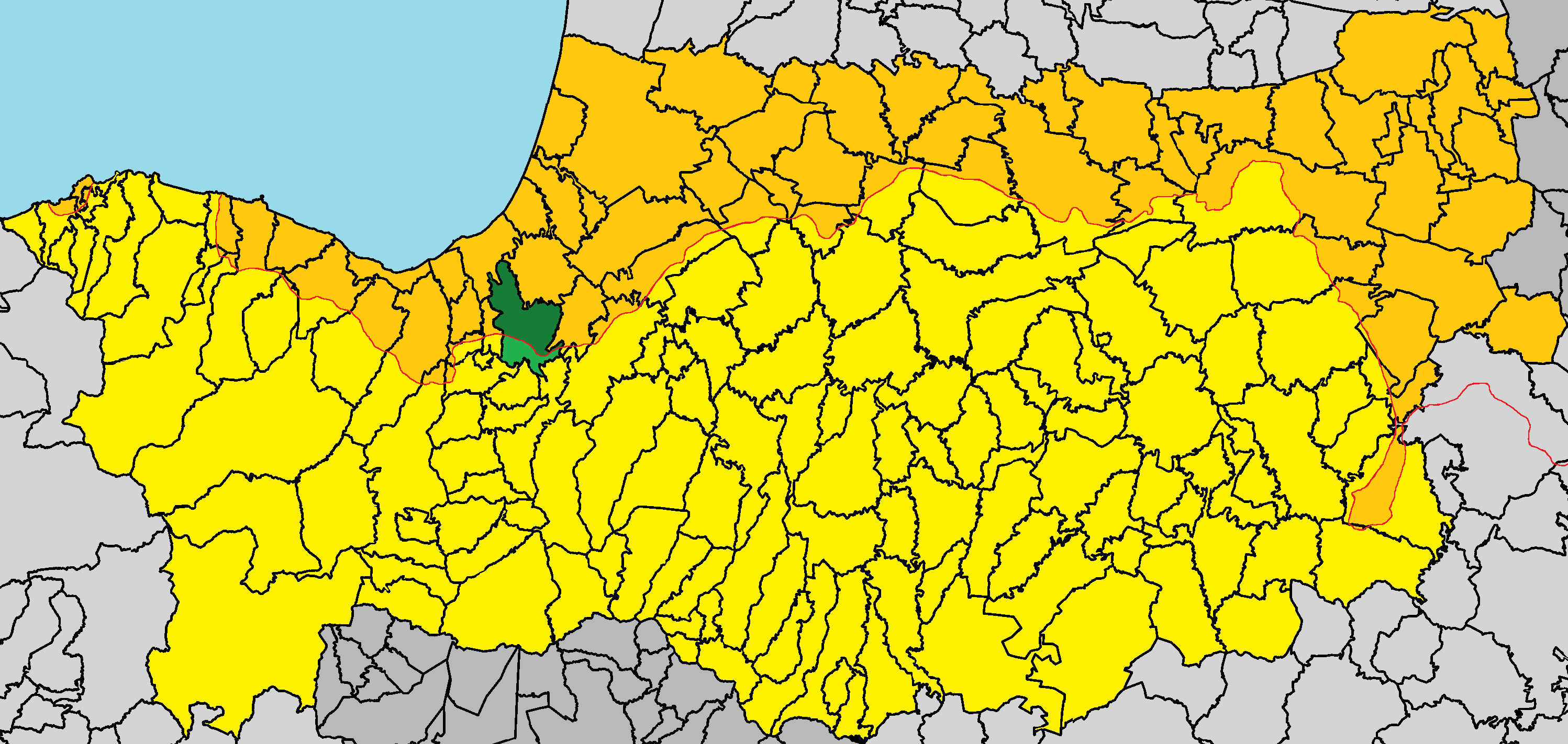 Petra in Nicosia District (de jure).